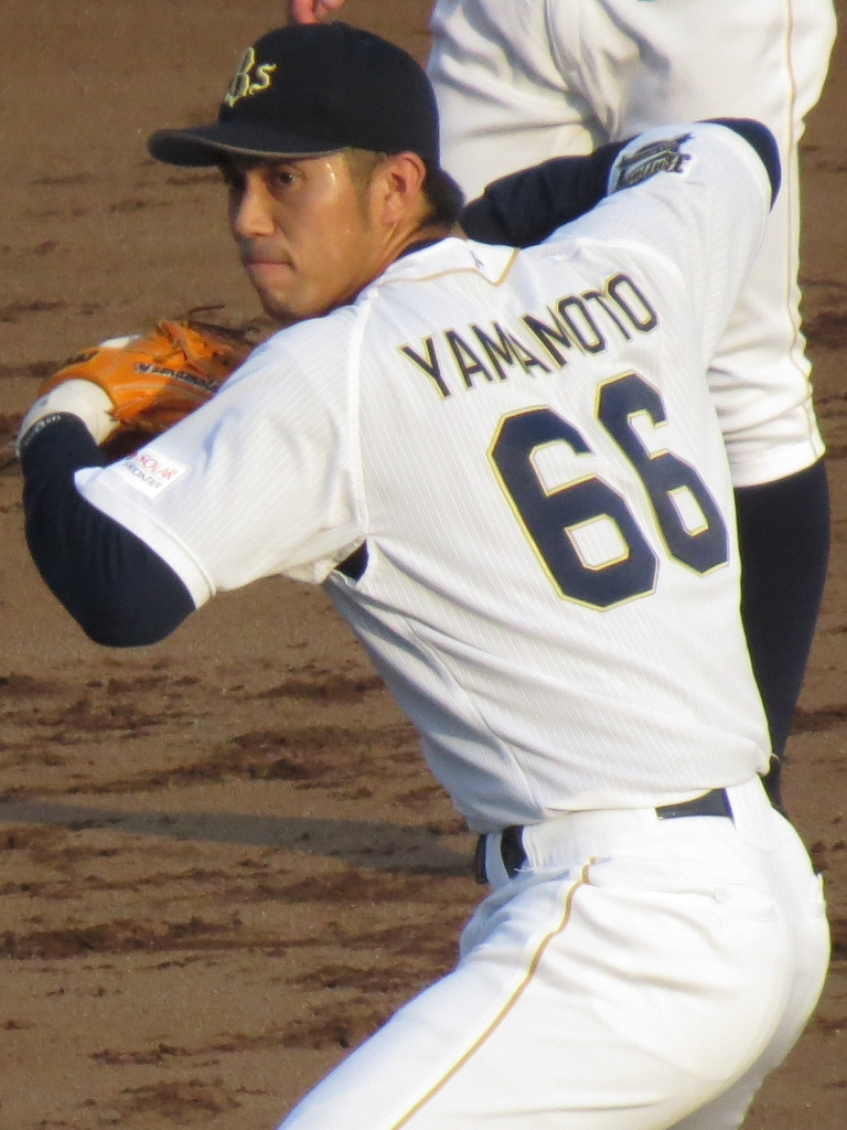 Kazunao Yamamoto, infielder of the Orix Buffaloes, at Kobe Sports Park Baseball Stadium.